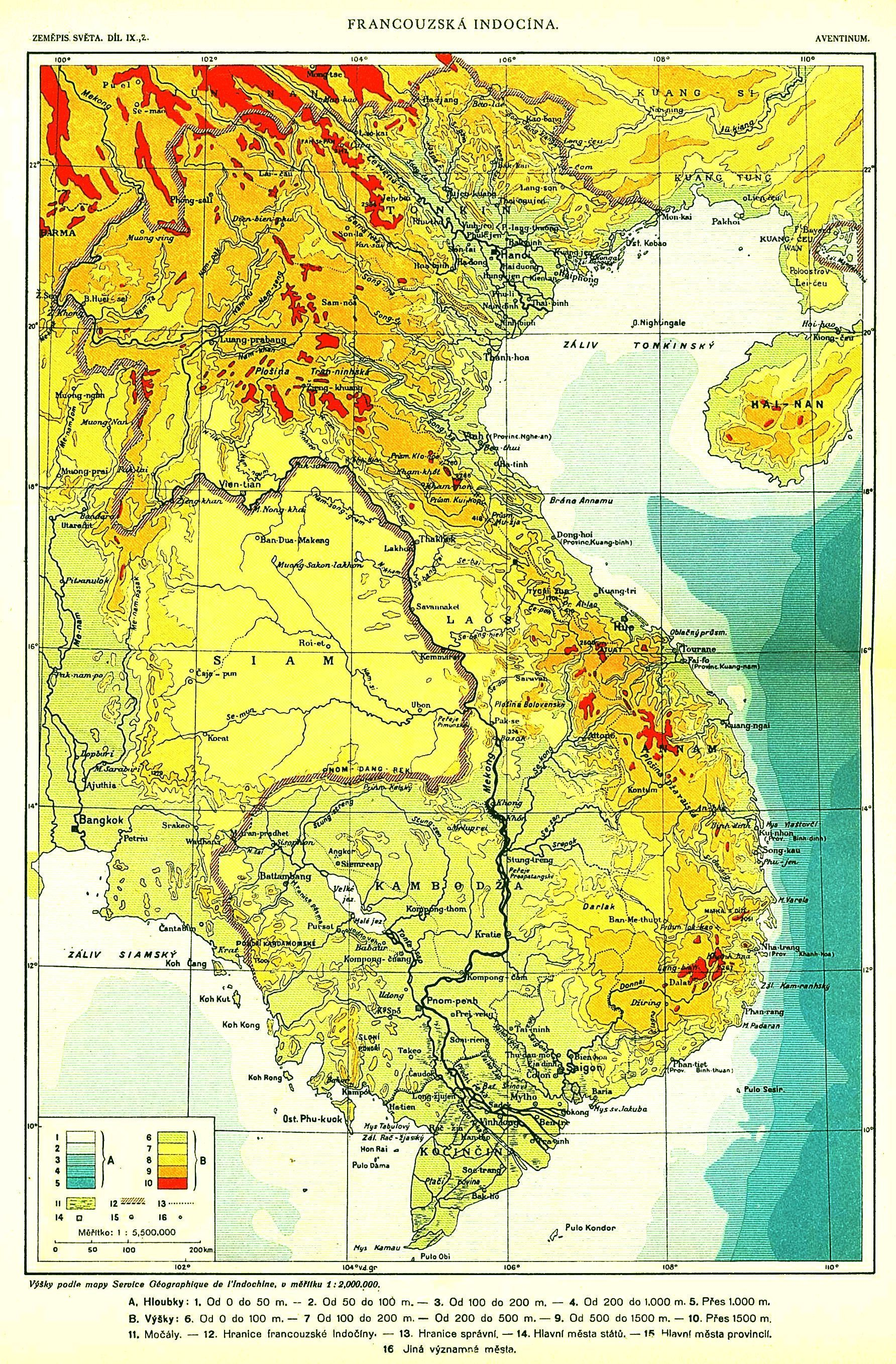 Map of French Indochina after the First World War. The descriptions are in Czech.